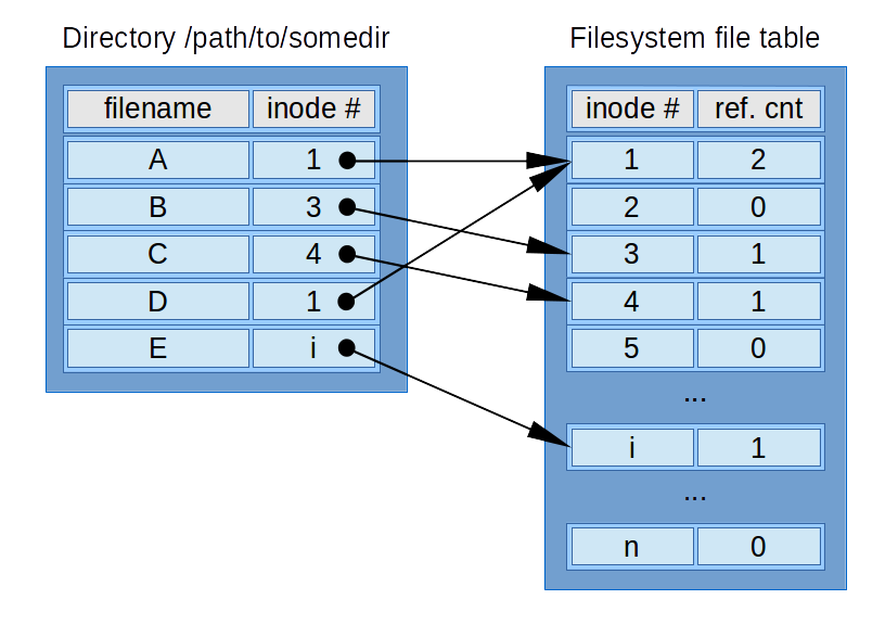 This PNG illustrates hard links and reference count in inodes, hiding much complexity like other metadata as timestamps, ownership, access rights, inode type (fdcb etc.), schema of actual allocated file data and indirect inodes. For educational use, works and presentations, you may use this work w/o citing credits, but you should not claim authorship, such as if you made it, for this would be very uncool. Thank Gawd!